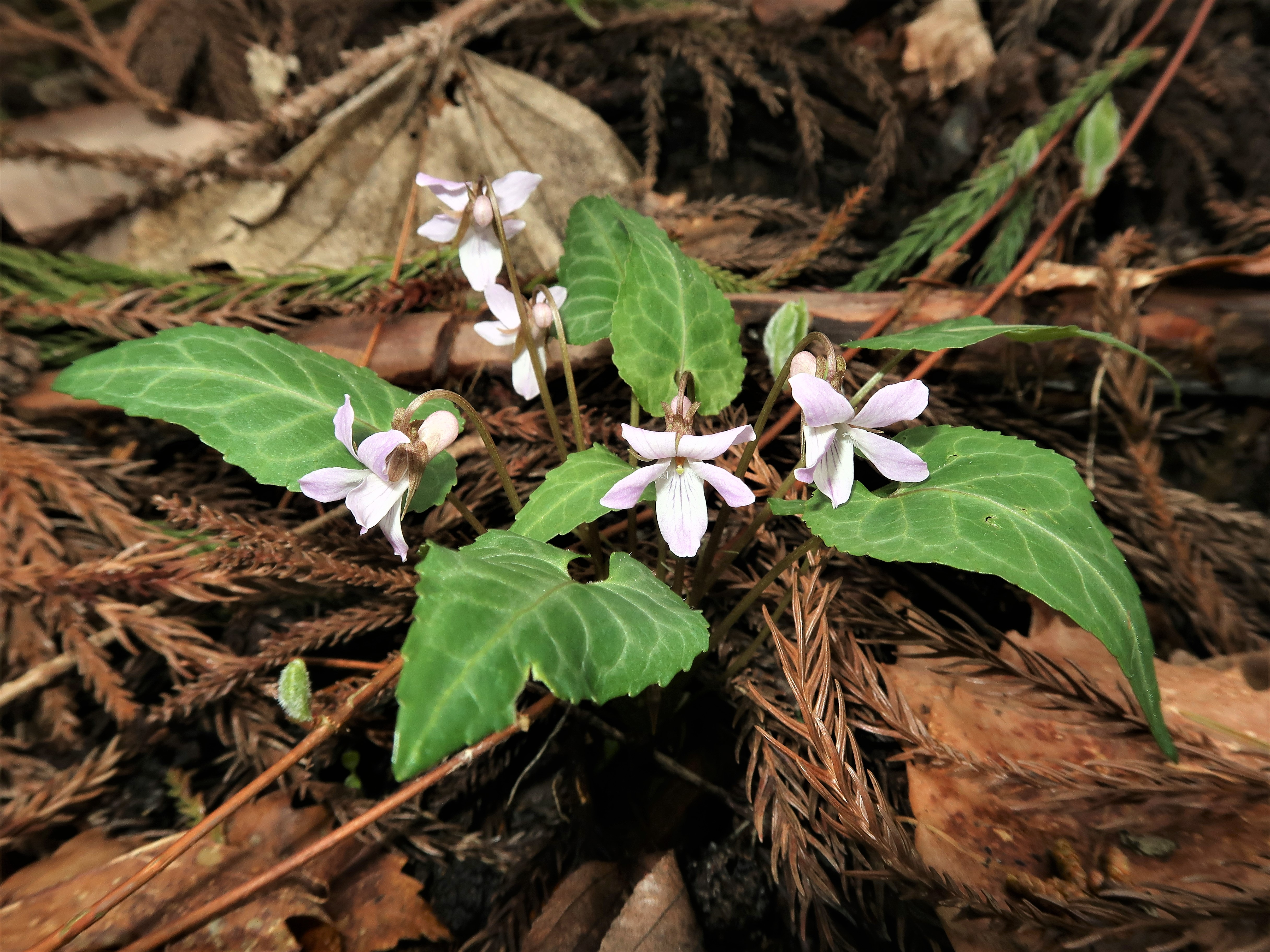 Viola tokubuchiana var. takedana, Aizu area, Fukushima pref., Japan